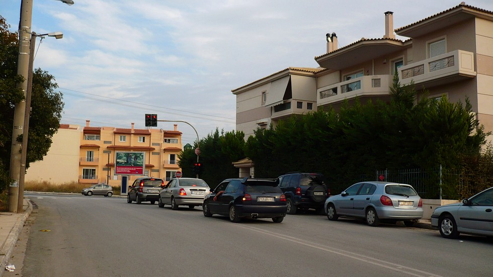 The picture depicts neighbourhood at Gargittos.